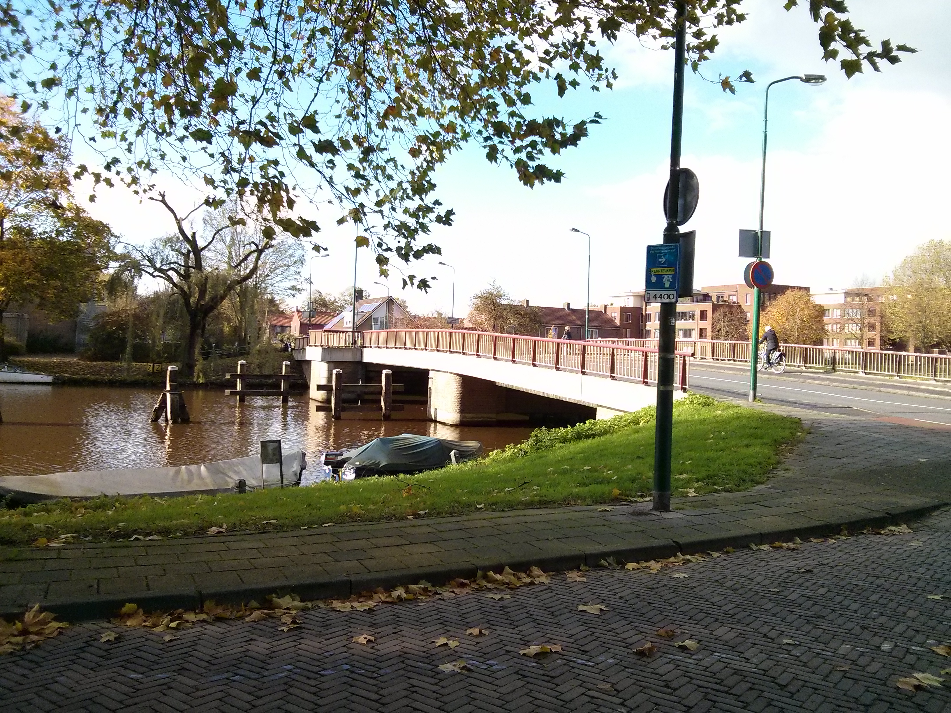 Bridge over the singel, Woerden, The Netherlands, EU